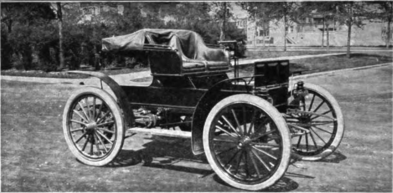 From a photo from an advertisement in "Gleanings in Bee Culture" Vol38 number 2, Jan 15, 1911 From Google books: Title Gleanings in bee culture, Volume 39 Publisher A. I. Root Co., 1911 Original from the University of California Digitized Aug 28, 2008